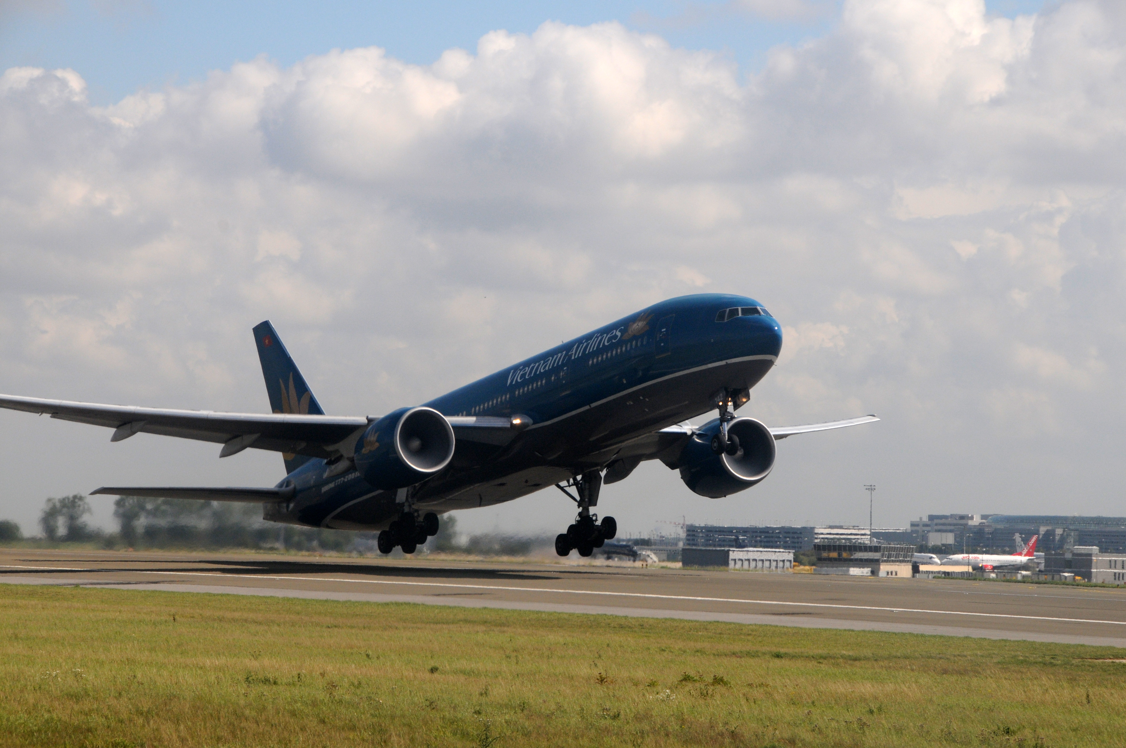 A Boeing 777-200ER of Vietnam Airlines taking off from Paris-Charles de Gaulle.